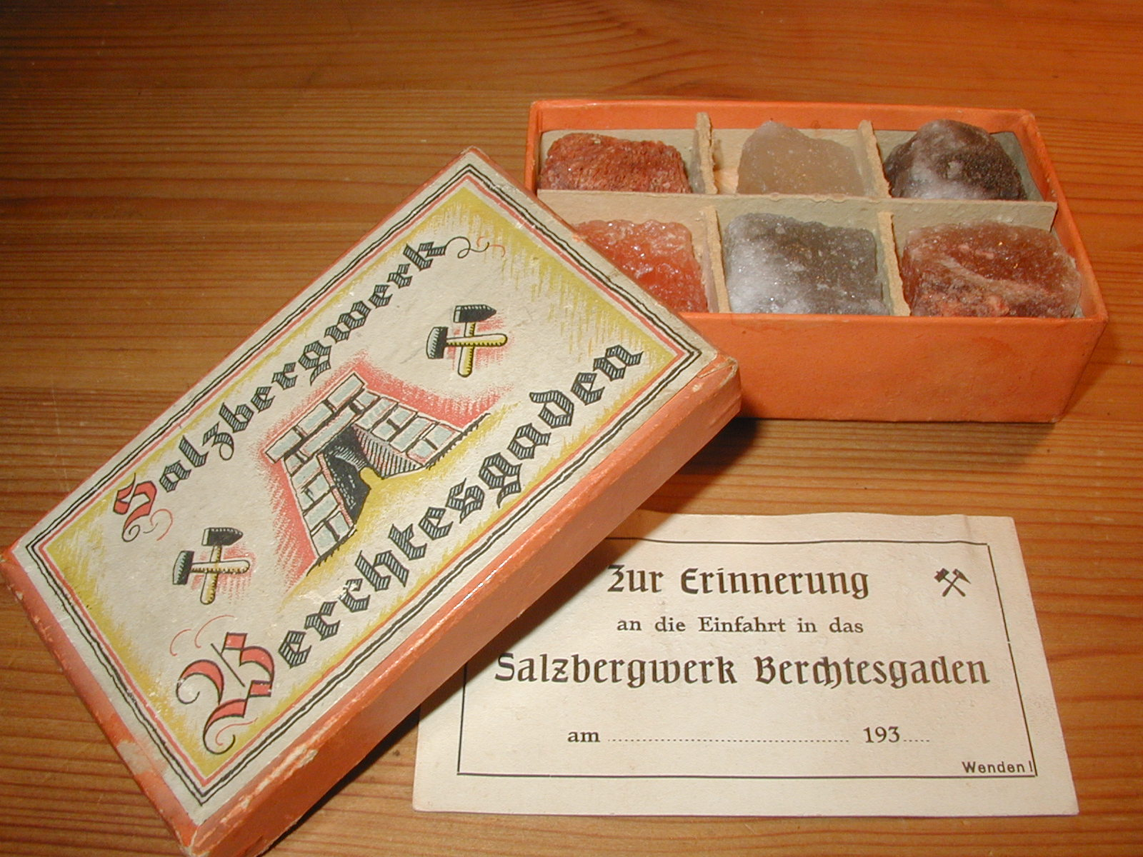 Salt from a mine near Berchtesgaden (Germany). Picture taken and uploaded by Roger McLassus (owner).